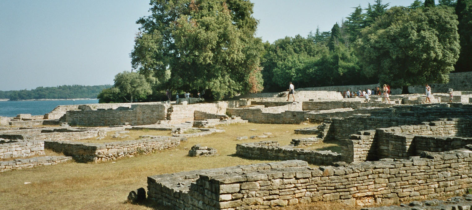 Byzantine Castrum at Brijuni